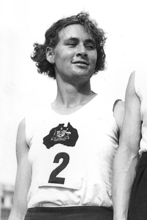 Jean Coleman, 220 yard sprint, Empire Games, Sydney